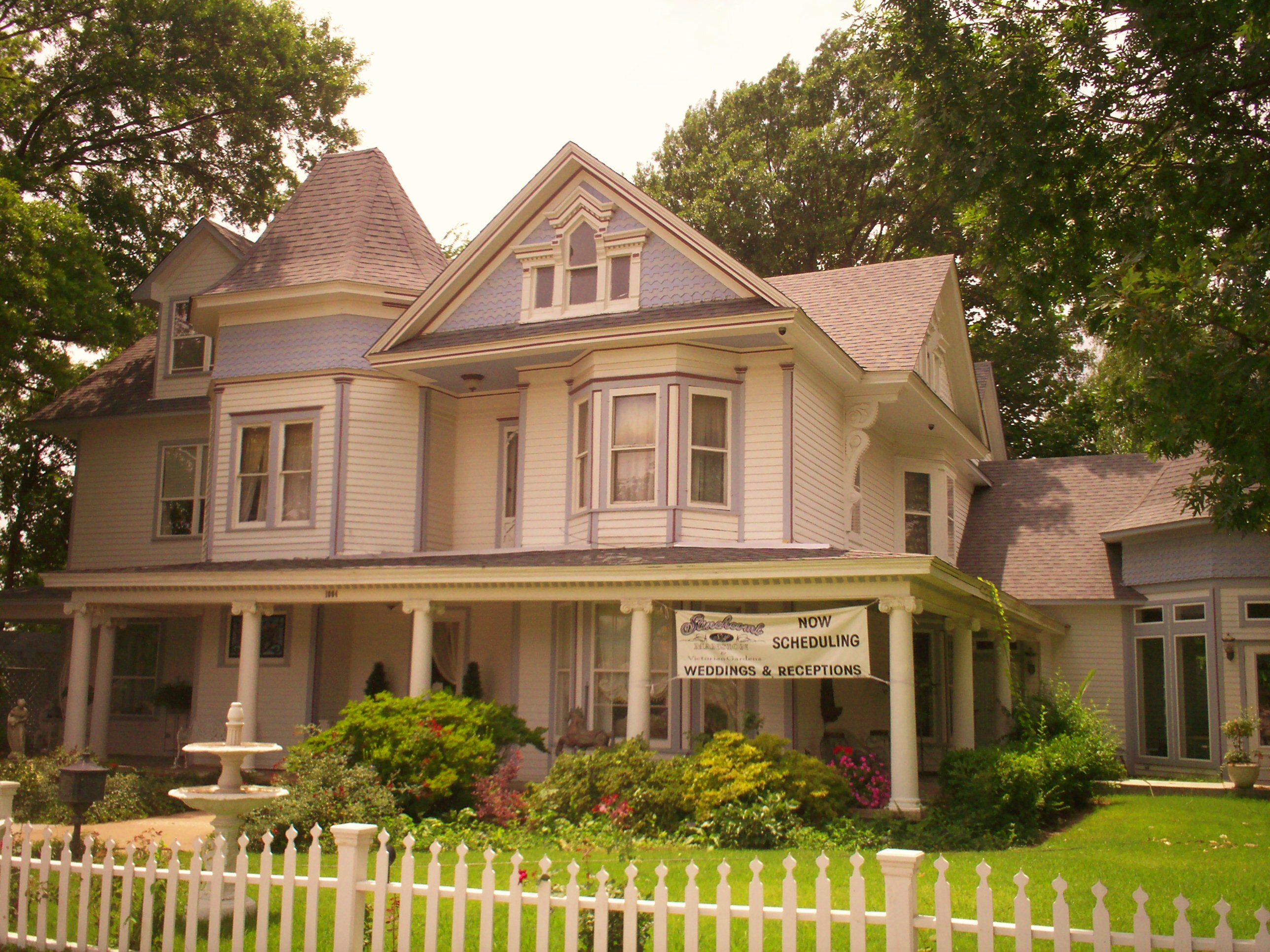 Historic mansion in downtown Broken Arrow, Oklahoma. This mansion is currently owned by Bob Stinchcomb, who with his wife, lives in the upstairs quarters and uses the downstairs quarters as well as the surrounding yard for weddings and other special events. Credits Taken by Jordan MacDonald on July 2nd, 2007